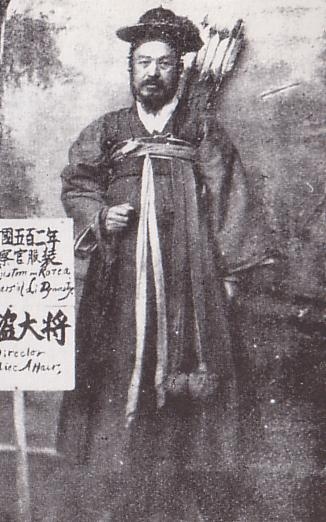 Joseon Traditional-Style Policeman